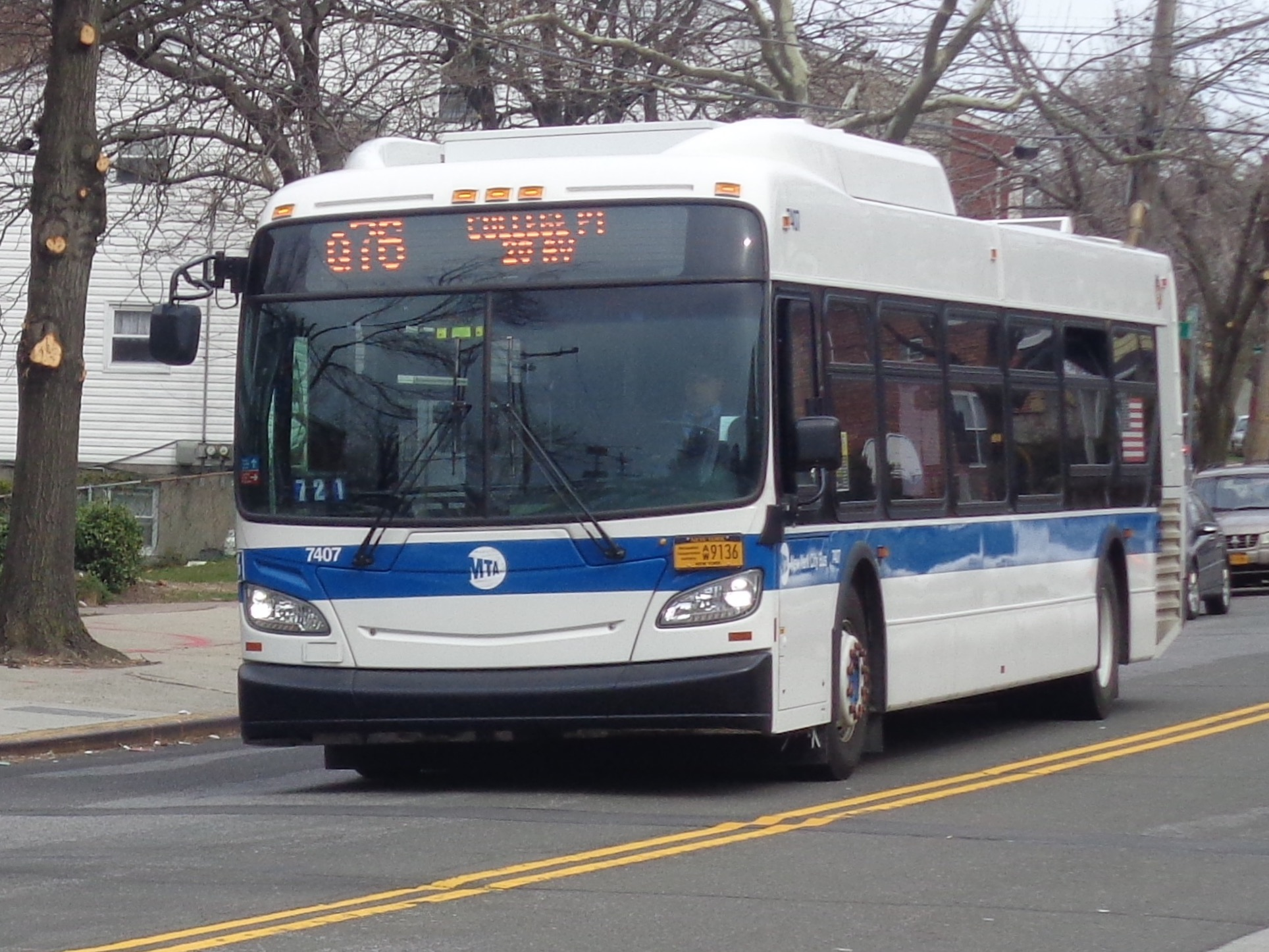 A College Point-bound Q76 bus at Parsons Boulevard and 20th Avenue in Whitestone, Queens.